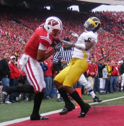 Nick Toon scores a touchdown against Michigan at Camp Randall Stadium in Madison, Wisconsin on November 14, 2009.